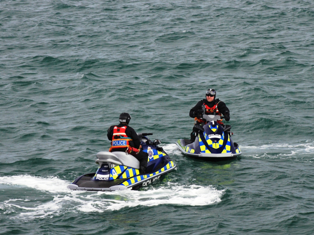 Two Dorset police officers on jet skis patrol Weymouth Bay during the sailing events of the 2012 Summer Olympics.